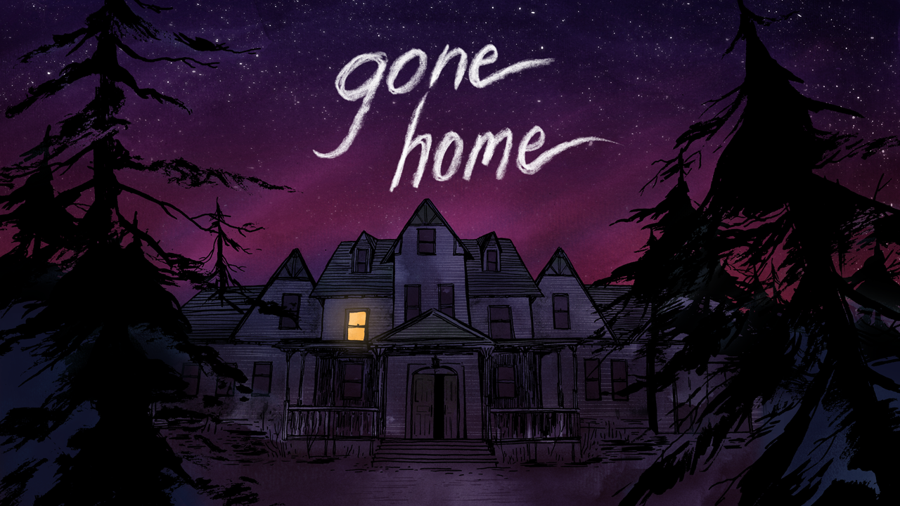 Gone Home title screen depicting the house in which the entire game is set. Released in August 2013 by The Fullbright Company.